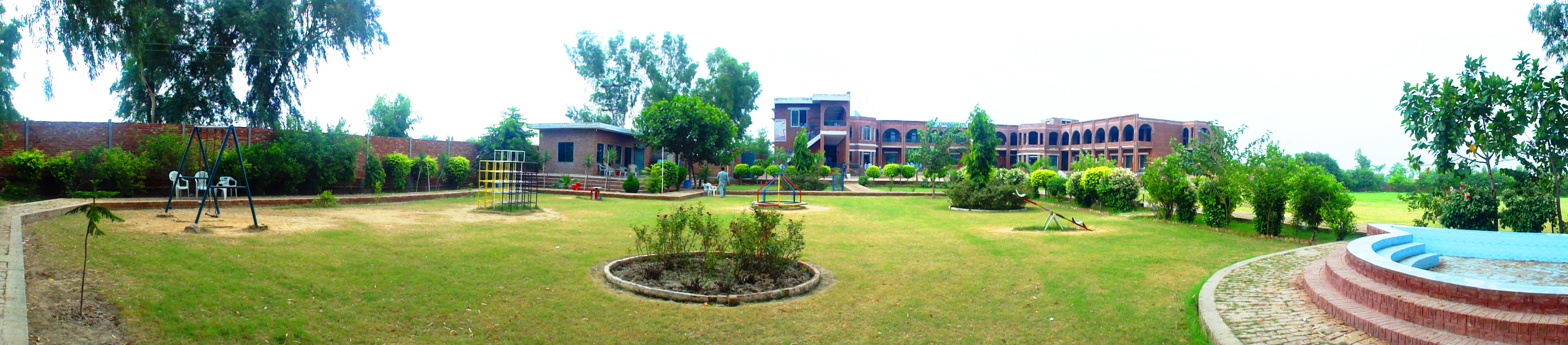 The Learning School (TLS) reflect a clear sense of purpose which is shared among all involved with the School. At TLS we have created an environment which is rich and inspiring and where confidence of young children is nurtured. TLS besides formal curriculum has embarked on many innovative approaches to inculcate value of peace, tolerance, human rights and civic education etc. among future generation, so they are intellectually well equipped to meet the challenges of future with confidence.